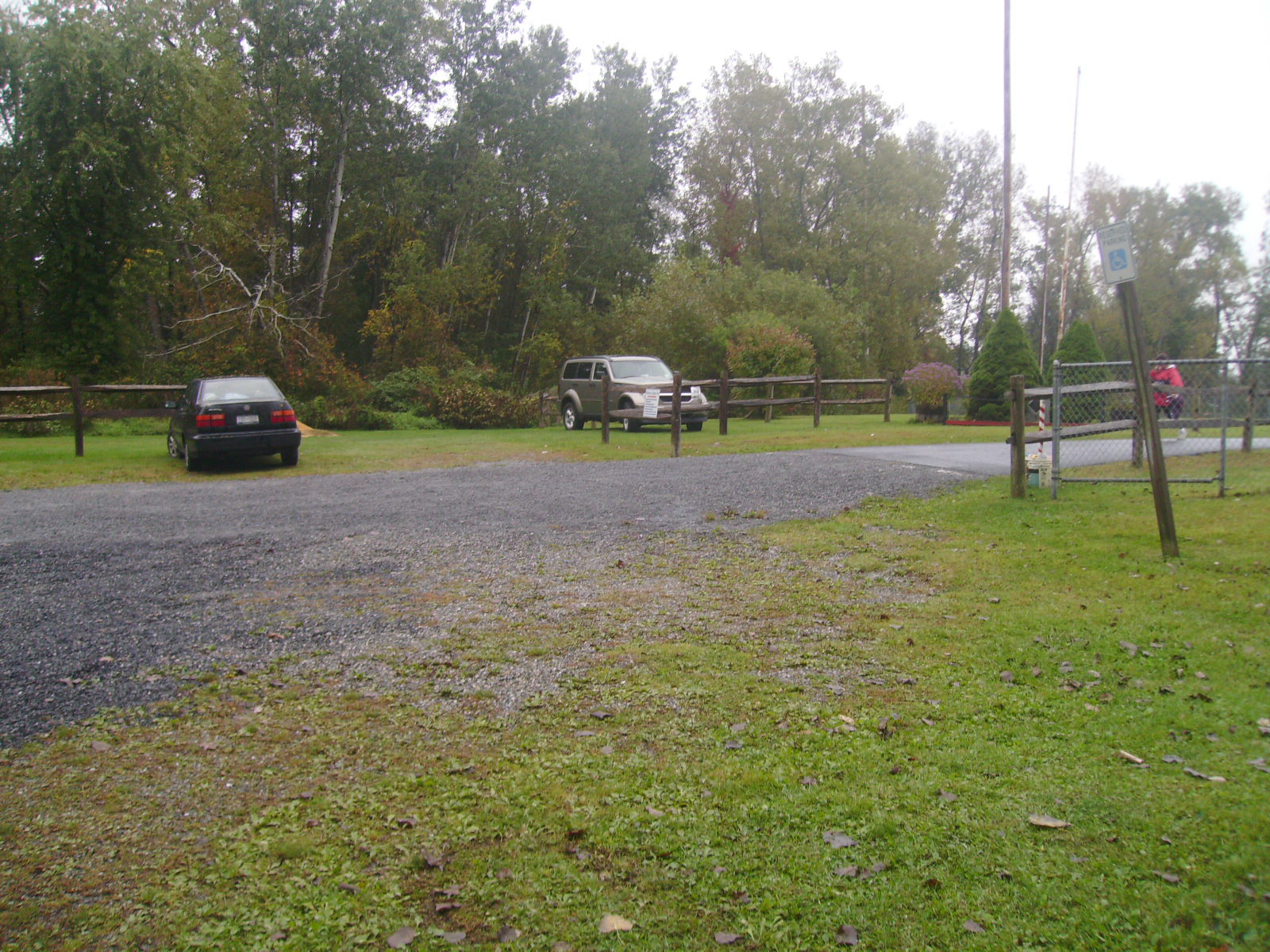 The northern end of Beekman Park in Amenia, New York. This portion is accessible from U.S. Route 44